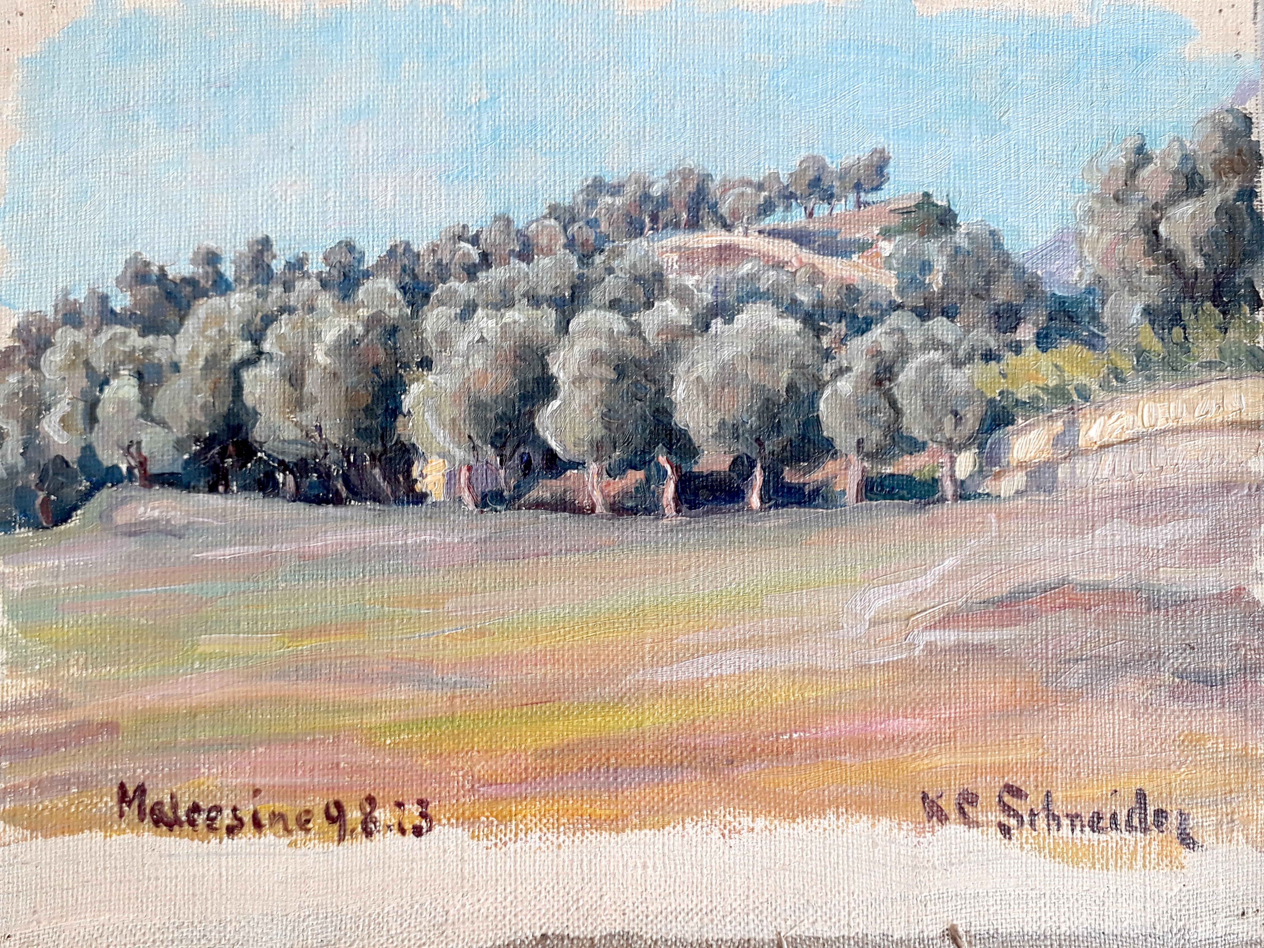 Karl Camillo Schneider - Malcesine 9. August 1923, Öl auf Leinwand, ca. 32 x 24 cm